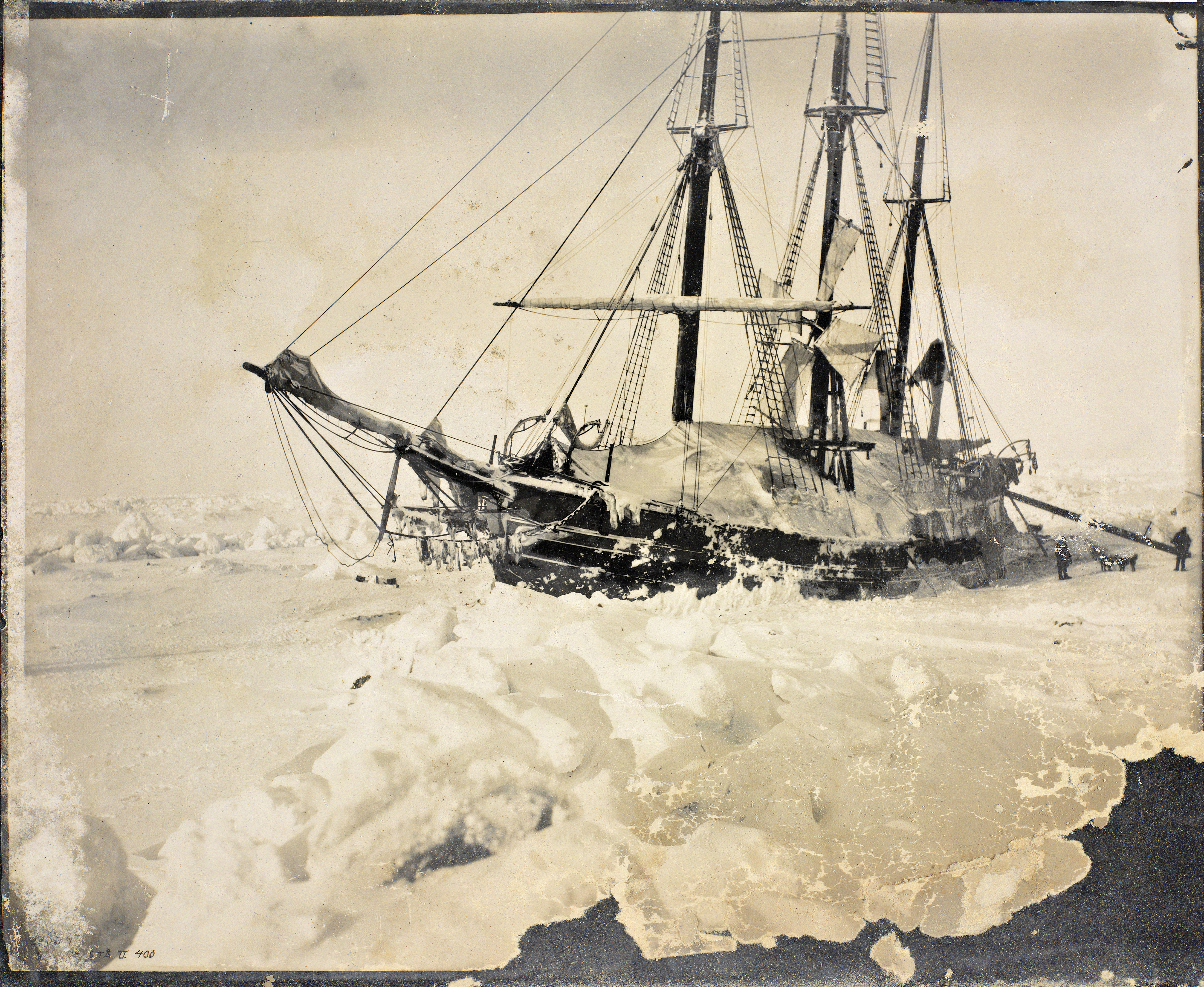 Tittel / Title: Fram i isen Motiv / Motif: Ett av bildene fra ekspedisjonen med polarskip mot Nordpolen i perioden 24 juni 1893 til 13 august 1896. Etter planen skulle skipet drive i isen med havstrømmer fra Sibirkysten over Nordpolen mot Grønland. Målet, å komme til Nordpolen, ble ikke nådd, men det vitenskapelige utbyttet var av stor betydning for polarforskningen. Dato / Date: Mars 1895 Fotograf / Photographer: Fridtjof Nansen (1861-1930) Sted / Place: Polhavet Eier / Owner Institution: Nasjonalbiblioteket / National Library of Norway Lenke / Link: Bildesignatur / Image Number: no-nb_bldsa_q3c013